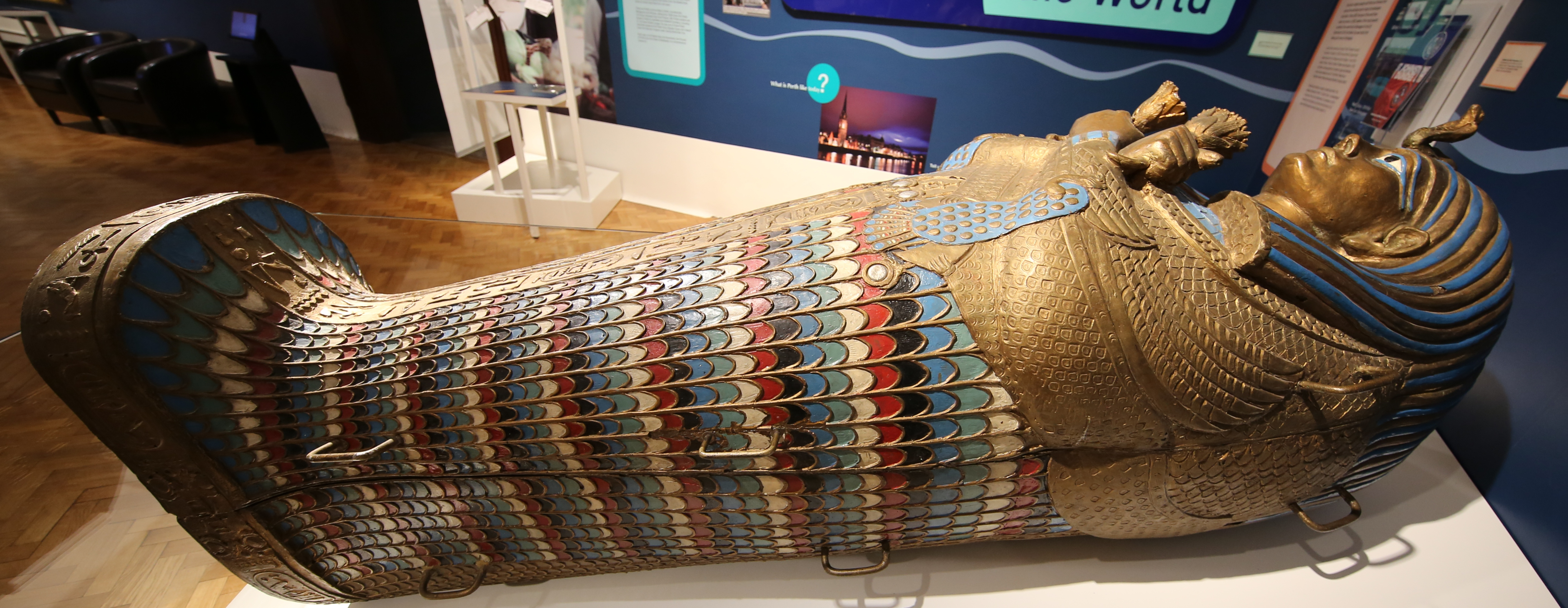 Photo of a sarcophagus prop used in the 1959 Hammer horror Film The Mummy